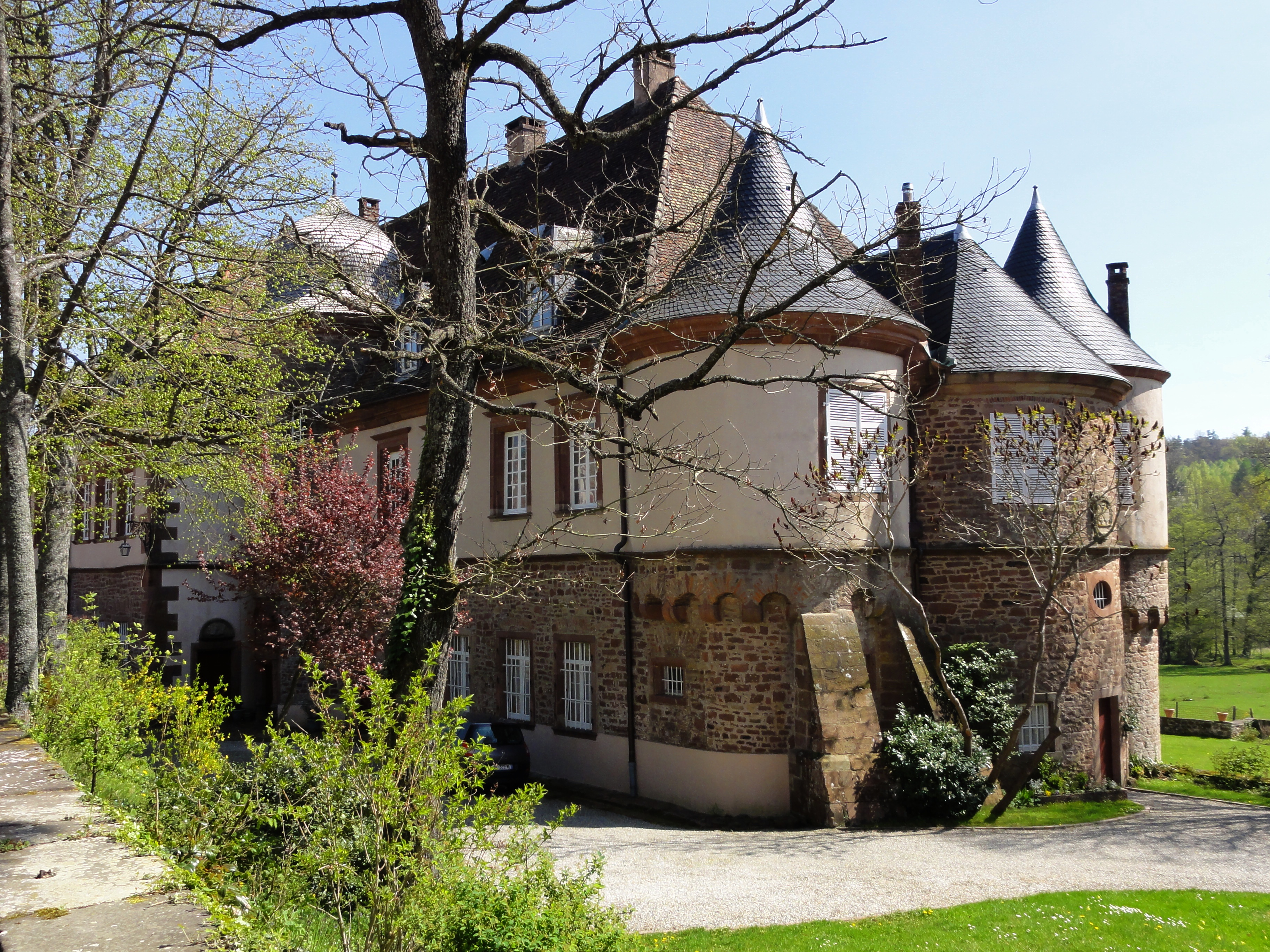 Alsace, Bas-Rhin, Birkenwald, Château (1562): It is indexed in the Base Mérimée, a database of architectural heritage maintained by the French Ministry of Culture, under the references PA00084617 and IA67007711 .